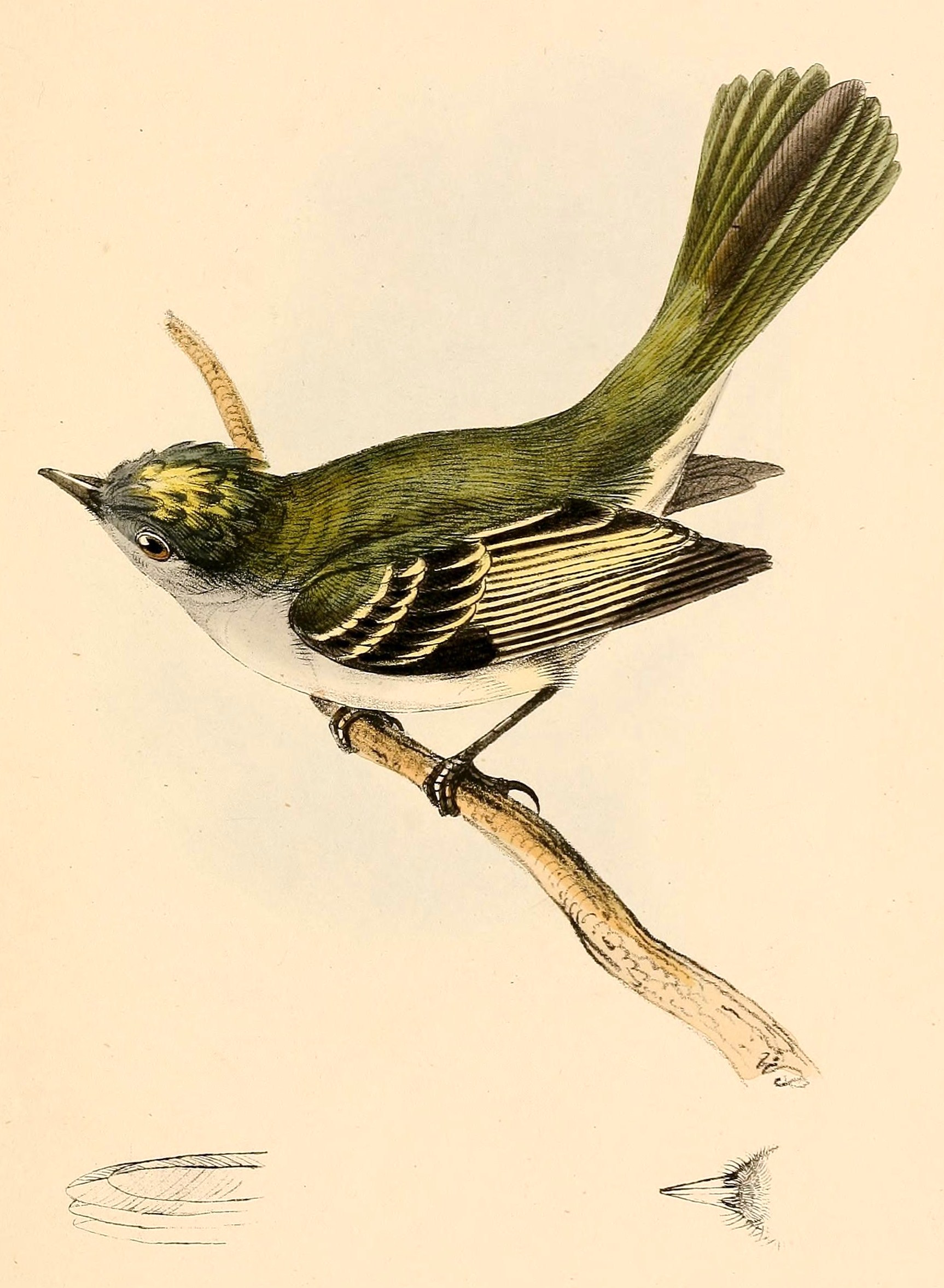 Tyrannula caniceps = Myiopagis caniceps (Grey Elaenia)